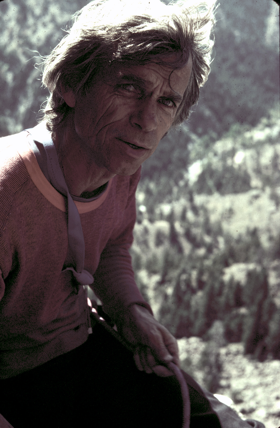 Bob Kamps on the climb "Over the Hill," Eldorado Canyon, Colorado, late 1970s. Photo by Pat Ament.